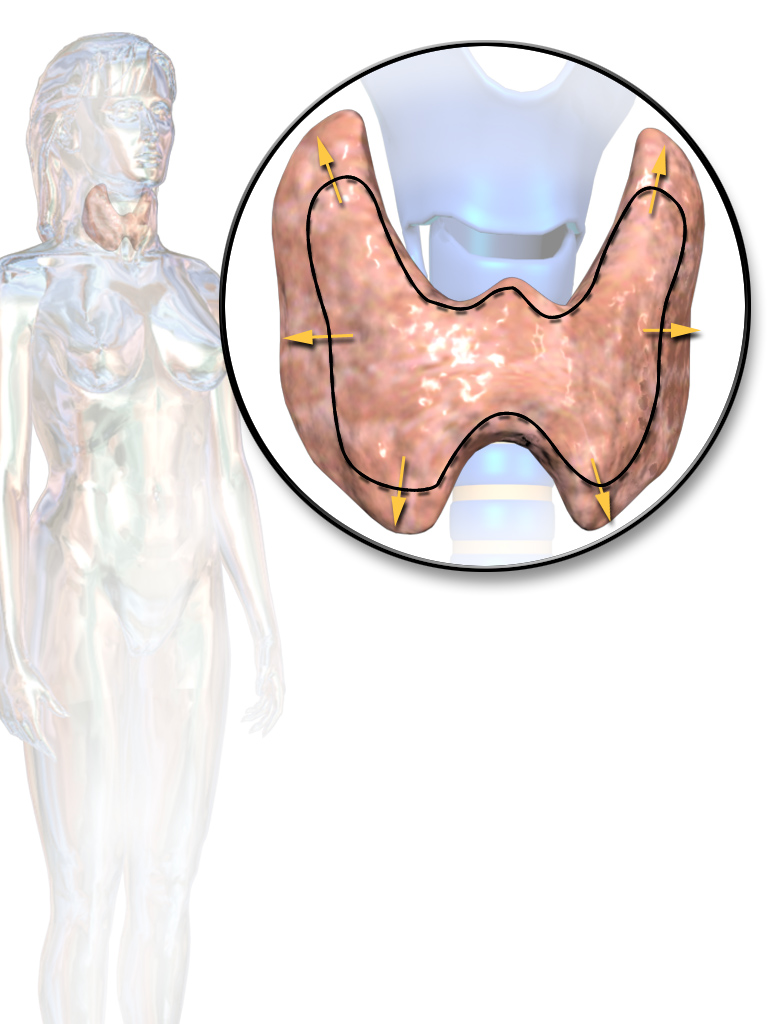 Hyperthyroidism. See a full animation of this medical topic